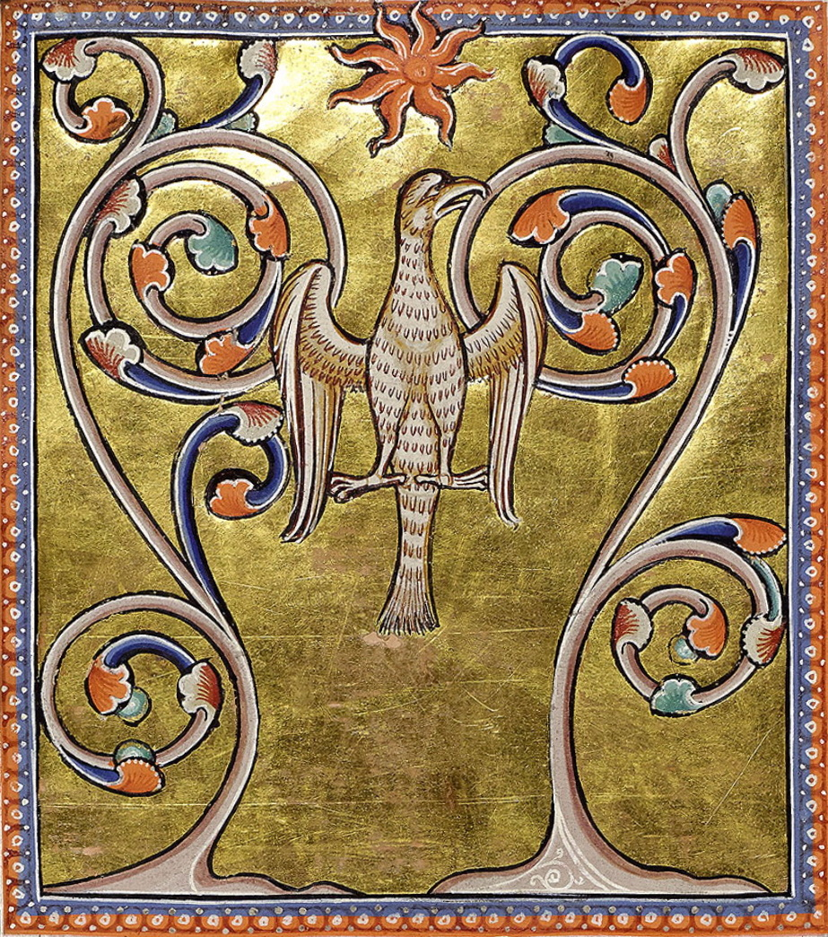 A reborn Phoenix, rising from its ashes. Description from source: "A ventral view of the bird between two trees, with wings out stretched and head to one side, possibly collecting twigs for its pyre but also like Christ on the cross."